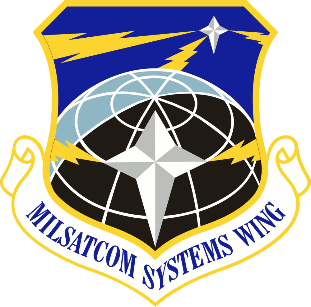 Emblem of the Military Satellite Communications (MILSATCOM) Wing, a wing of the United States Air Force